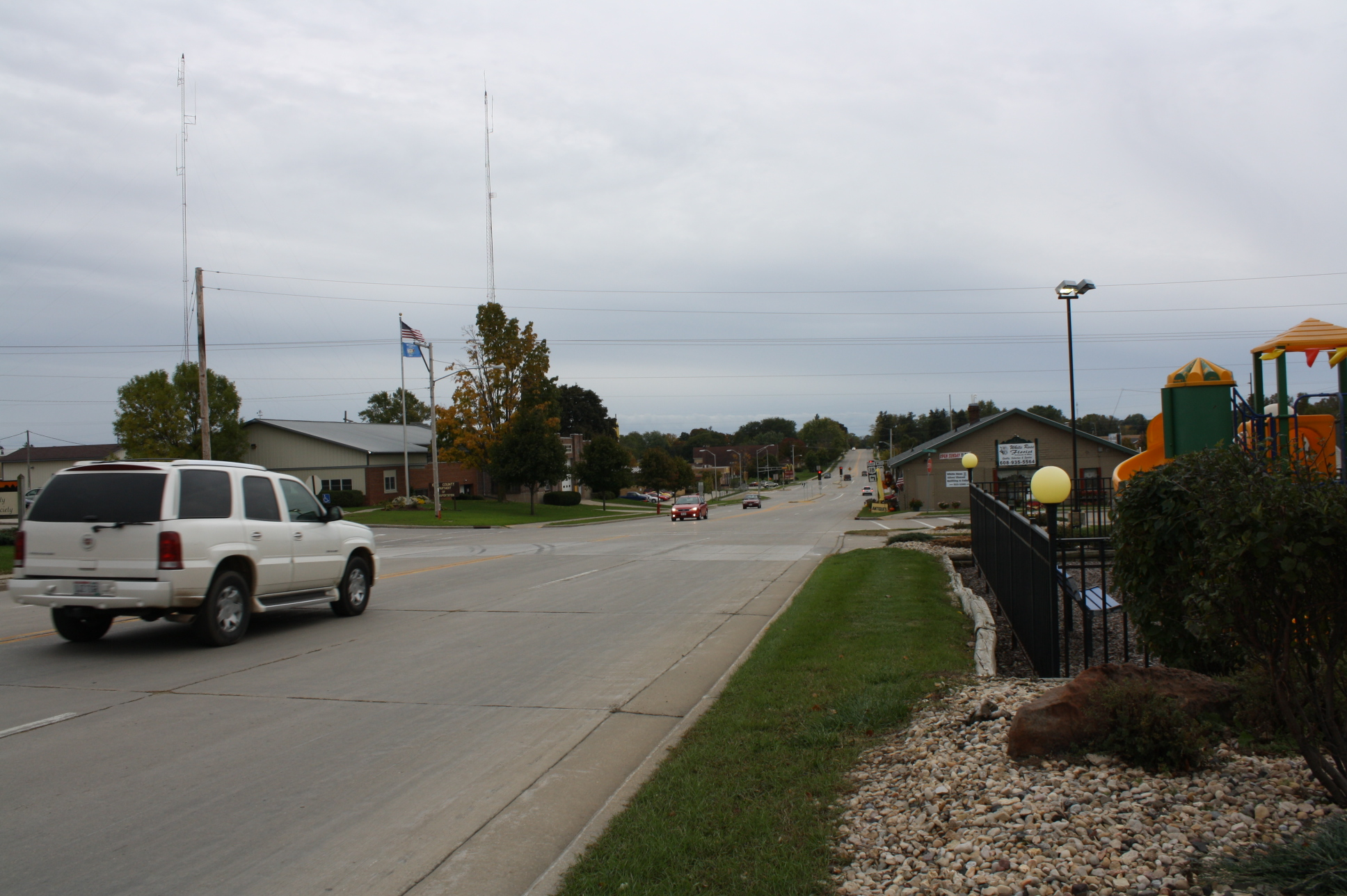 Looking south in Dodgeville, Wisconsin at U.S. Route 18 on Wisconsin Highway 23.